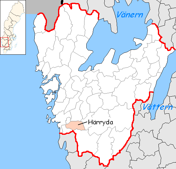 Härryda Municipality in Västra Götaland County Designed by me. Mere outlines are a PD source from